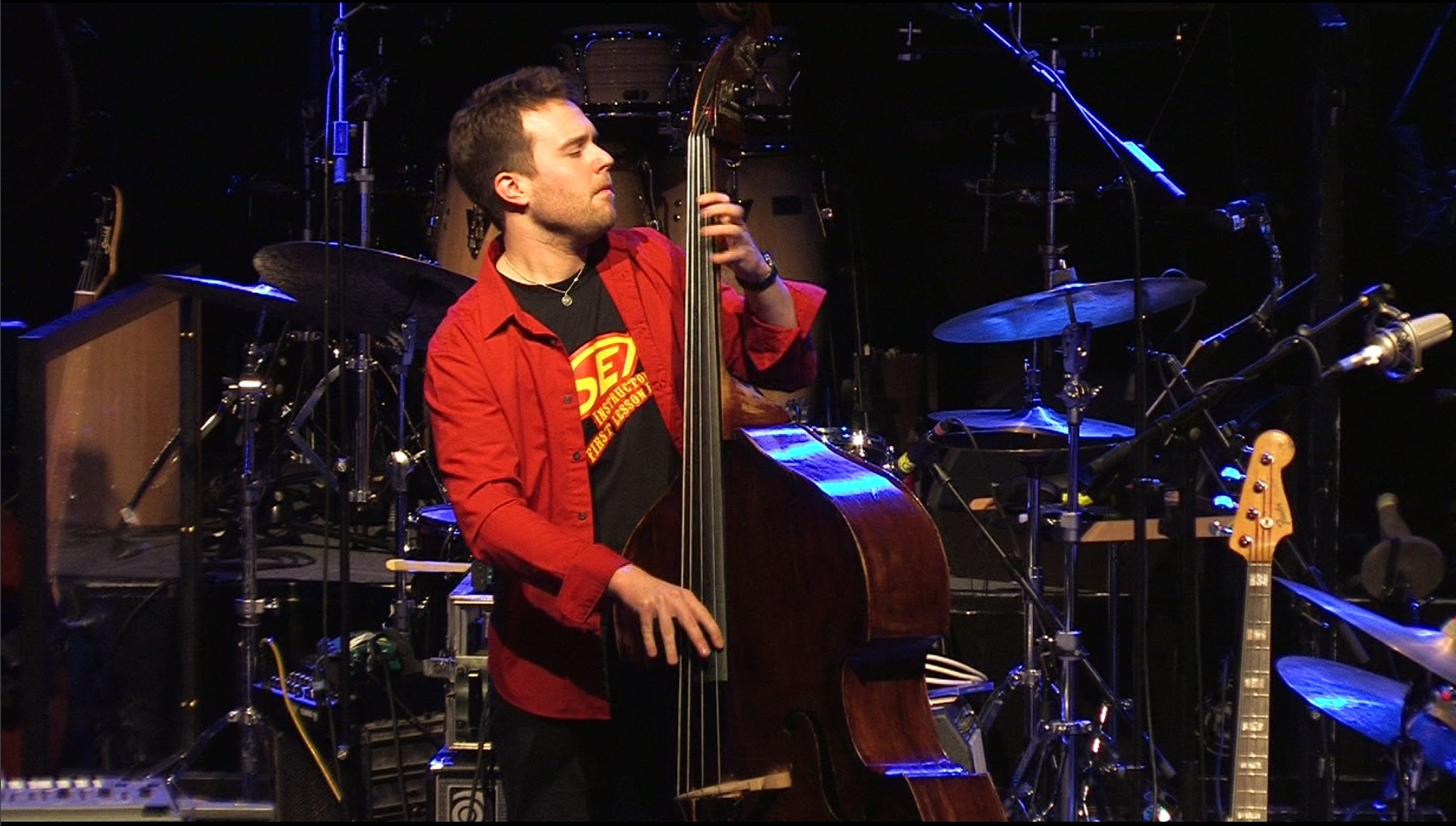 Philipp Steen